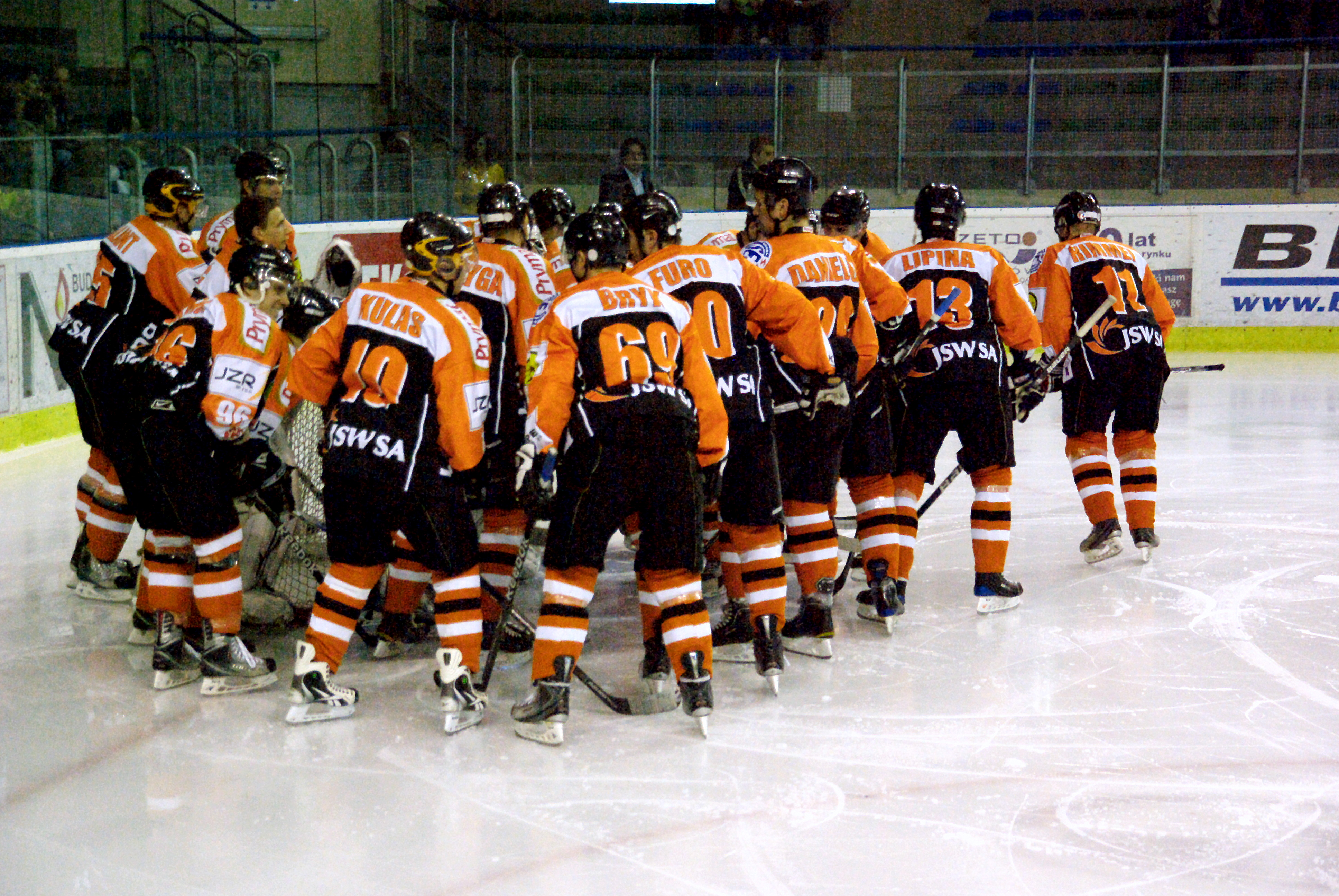 Ciarko KH Sanok - JKH Jastrzębie), 2010, September 19